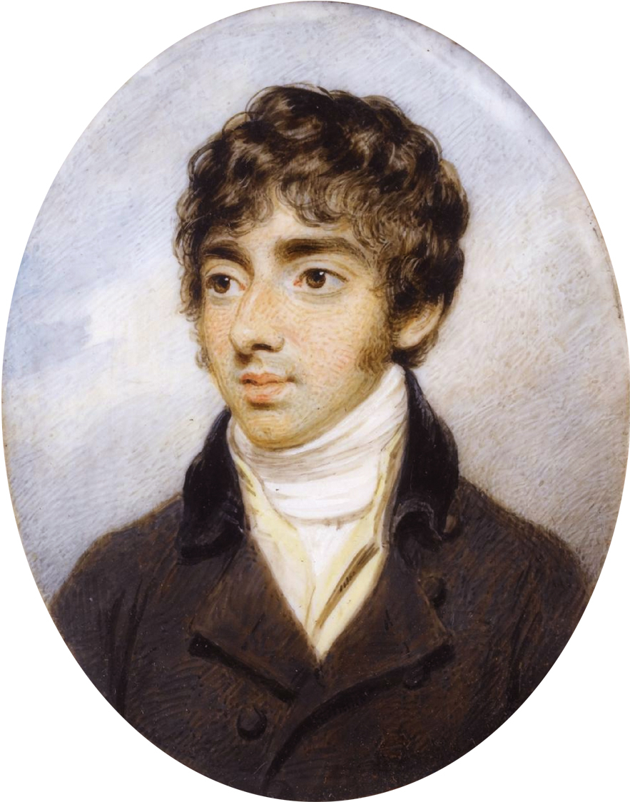 Thomas Girtin (1775-1802) 7.2 by 6.2 cm.; with short curled brown hair, wearing a brown coat with a black collar and a buff waistcoat, cloud and sky background later inscribed on a label (verso): Thomas Girtin / by / Henry Edridge ARA / inherited by Dr T C Girtin / given by him to his daughter / Mary (Barnard) / Left by her to her daughter / Ethel (Sutton). / Bought in 1935 by Sabina / wife of Thomas Girtin - / with lock of hair watercolour with touches of gum arabic on ivory